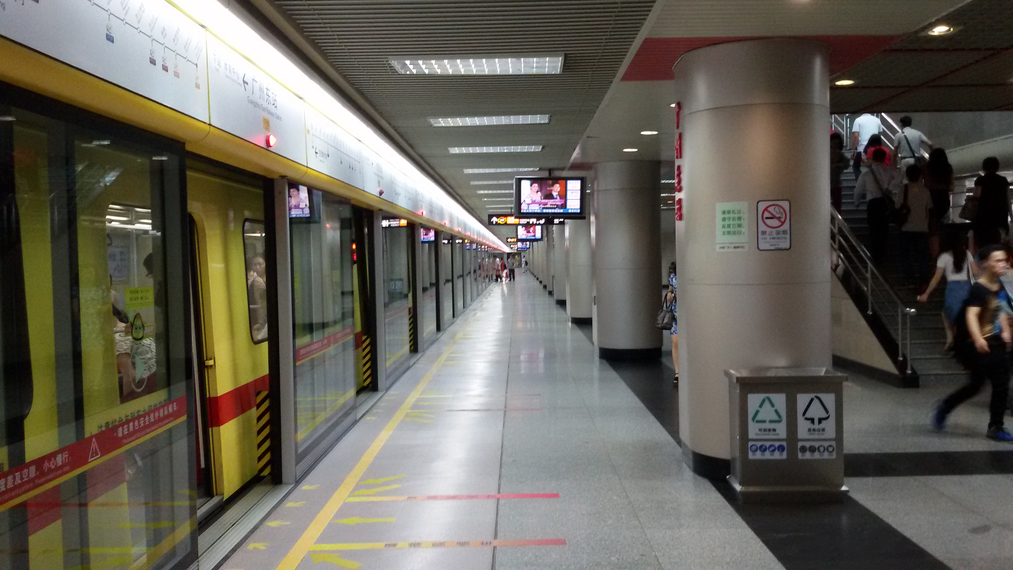 Platform for Line 1 in Guangzhou East Railway Station